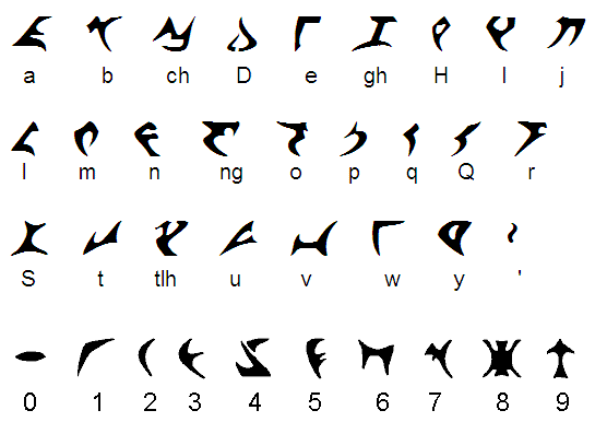 The Klingon Language Institute's (KLI) Klingon alphabet and numbers.